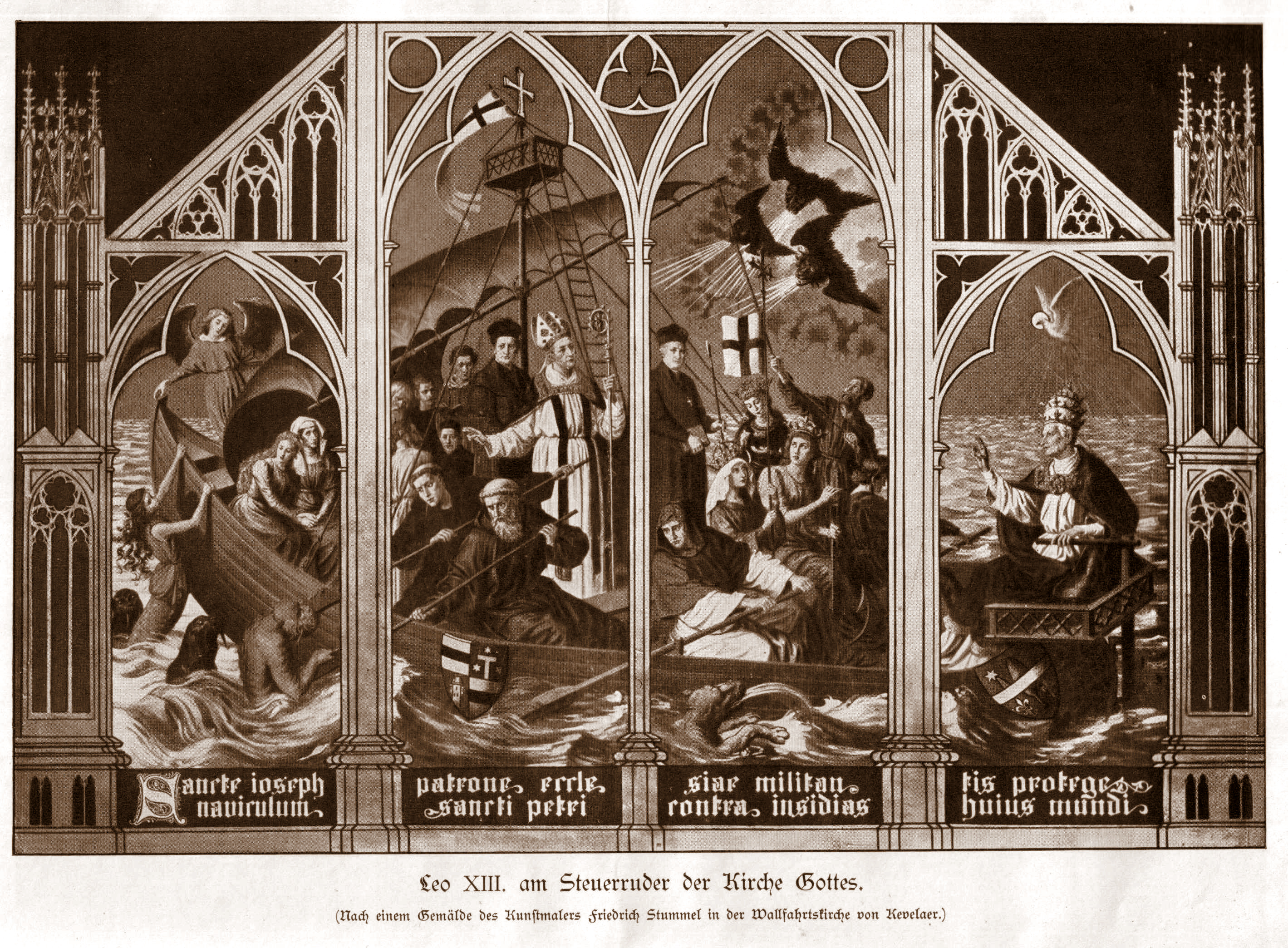 Photo of painting from Friedrich Stummel in Kevelaer in year 1903